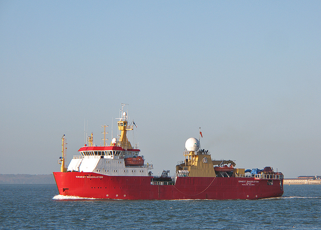 RRS Ernest Shackleton of the British Antarctic Survey leaving Portsmouth, UK, bound for Antarctica. Image uploaded by me User:George.Hutchinson from a photograph taken by and supplied by Brian Burnell. Wikipedia editors are reminded that the copyright remains with the photographer, and that the terms of the Creative Commons licence; that allow editors to reuse this image apply to Wikipedia editors also, as they do to other re-users of this image. Breaches of the licence terms are not only unlawful, but are also antisocial, in that breaches discourage photographers from making their images freely available to everyone without payment. Wikipedia re-users are also reminded of the license terms that derivatives of this image should not imply that the adaptation is endorsed or approved by the author or copyright holder. Neither should derivatives be presented as the creation of the author or copyright holder, while clearly stating that the adaptation is a derivative of the original. Attribution online should be in this format Brian Burnell. On the printed page, a simpler form is acceptable - example: "Image: Brian Burnell". Non-Wikipedia users are requested to advise Brian Burnell of its use other than on Wikipedia.